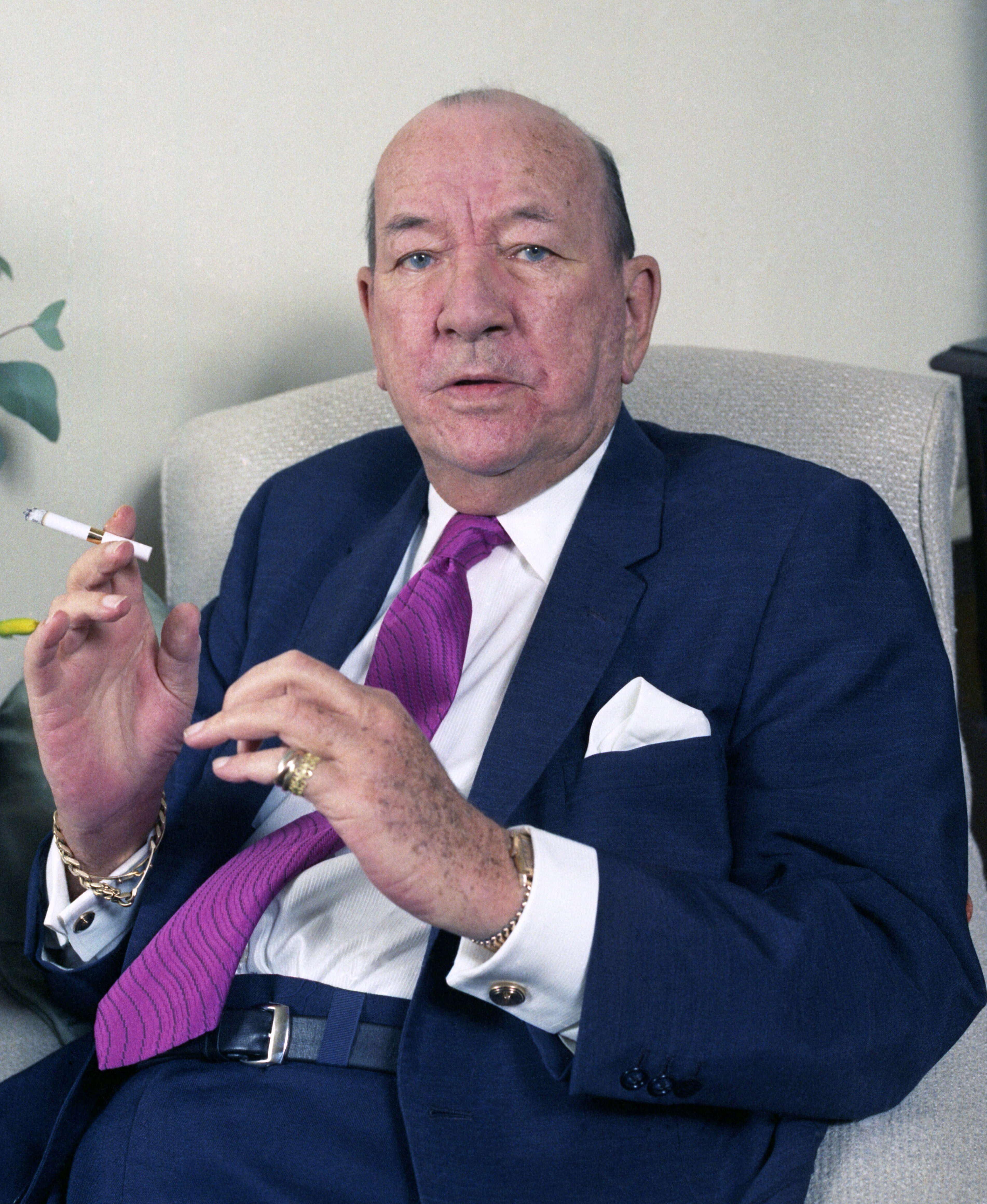 Sir Noel Coward in his suite at the Savoy Hotel, London